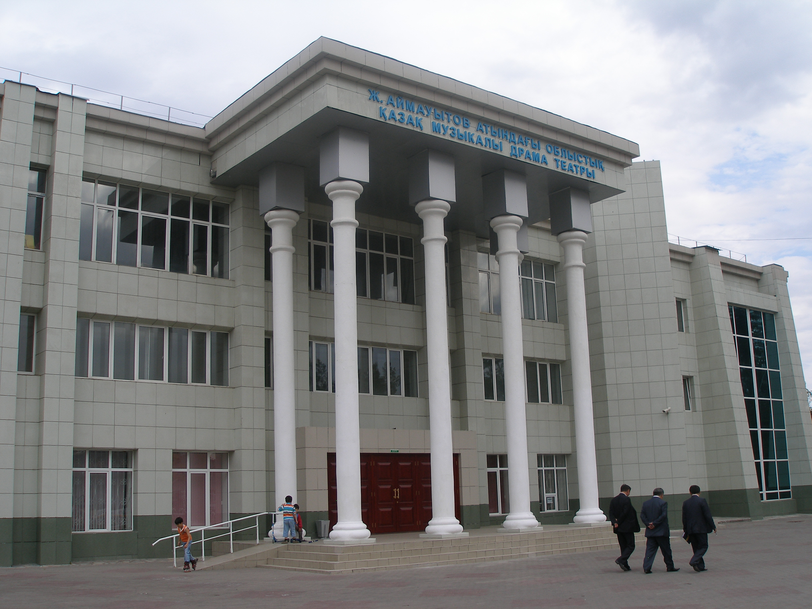 Kazakh Drama Theatre Aimautov Pavlodar